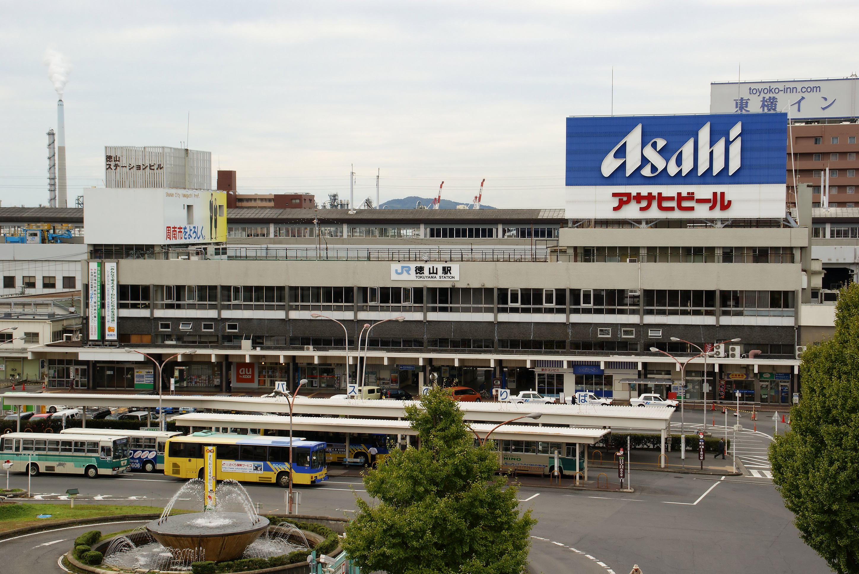 West Japan Railway, Tokuyama Station.(Shunan City, Yamaguchi Prefecture, Japan)